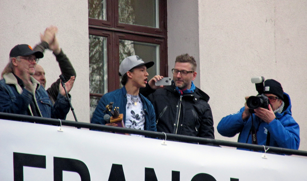 Ystad 14 March 2016. Frans receives the people's jubilation at the Town Hall balcony. From left, Michael Saxell, Oscar Fogelström, Frans and Fredrik Andersson.